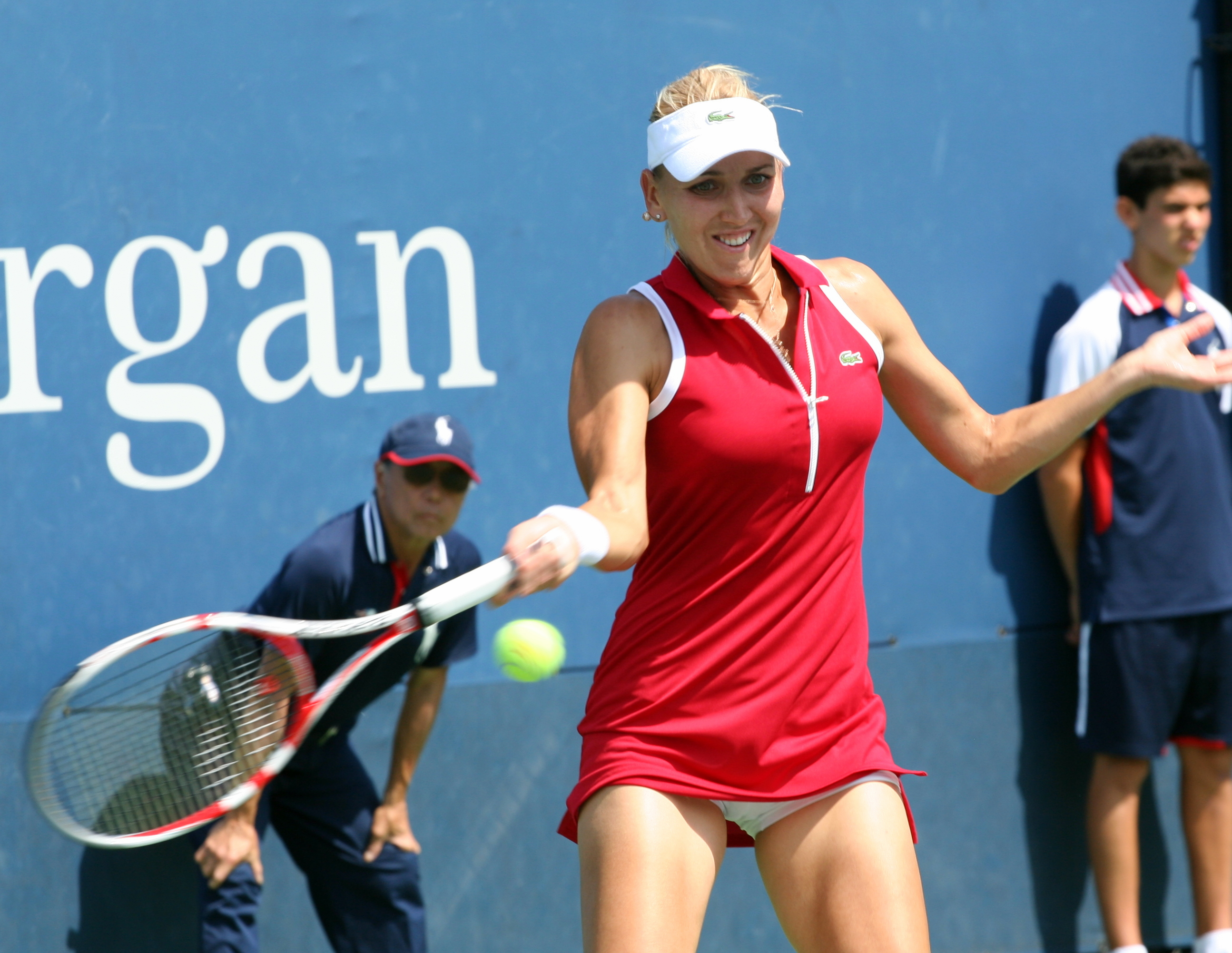 Tuesday, August 27